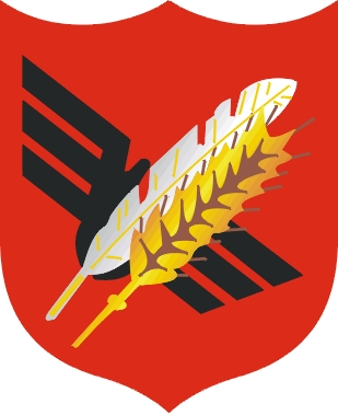 Coat of Arms of Koluszki in Poland